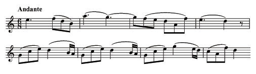 The theme of 2st movement of Mendelssohn's Violin Concerto op.64